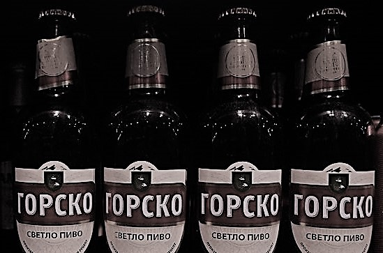 Goresko Pivo